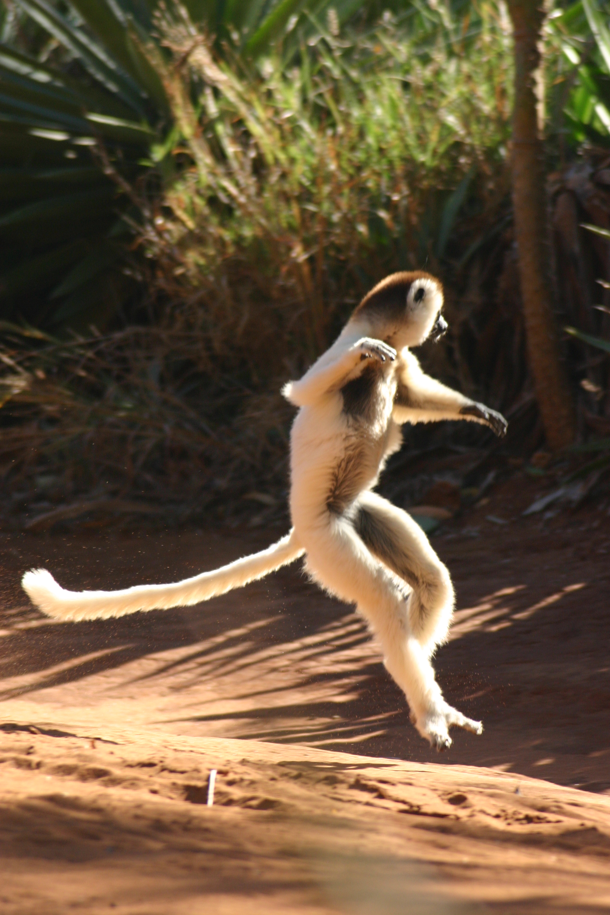 Verreaux's Sifaka (Propithecus verreauxi) Location: Berenty, Madagascar